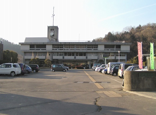 Tsuru City Hall in Yamanashi Preferture, Japan